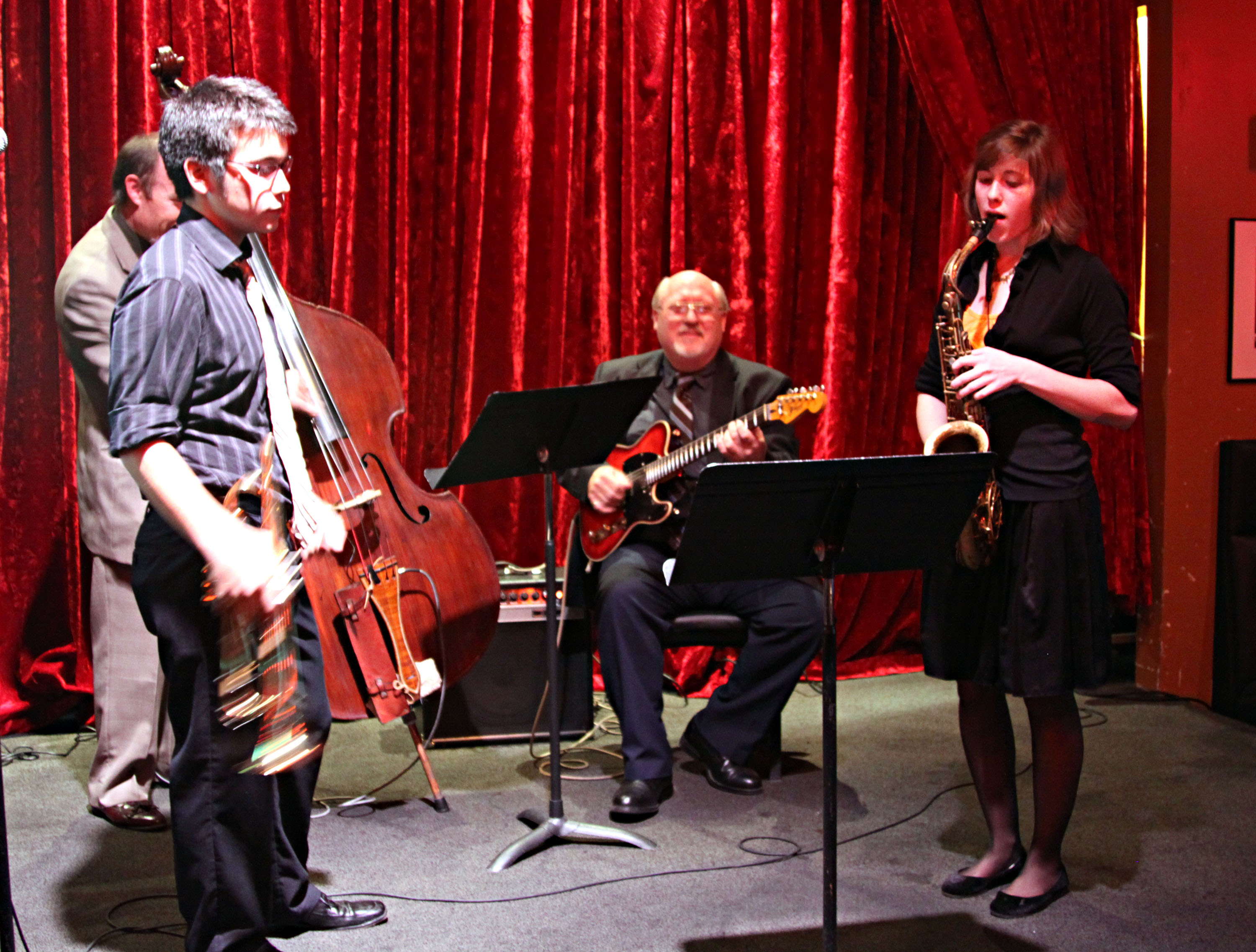 A jazz quartet performs at Jimmy Mak's during a Powered by Orange event. Date: Sept. 21, 2009 (photo by: Larry Pribyl)